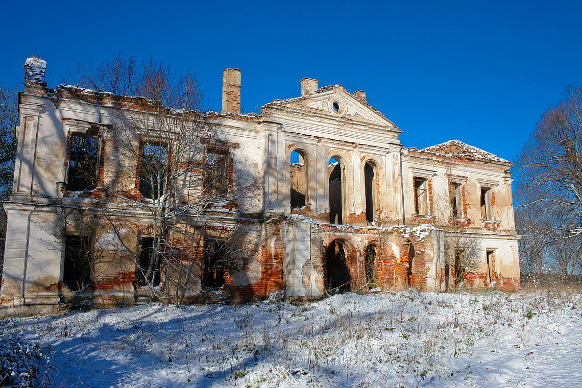 Manor in Alantės (late 19th century), Lithuania